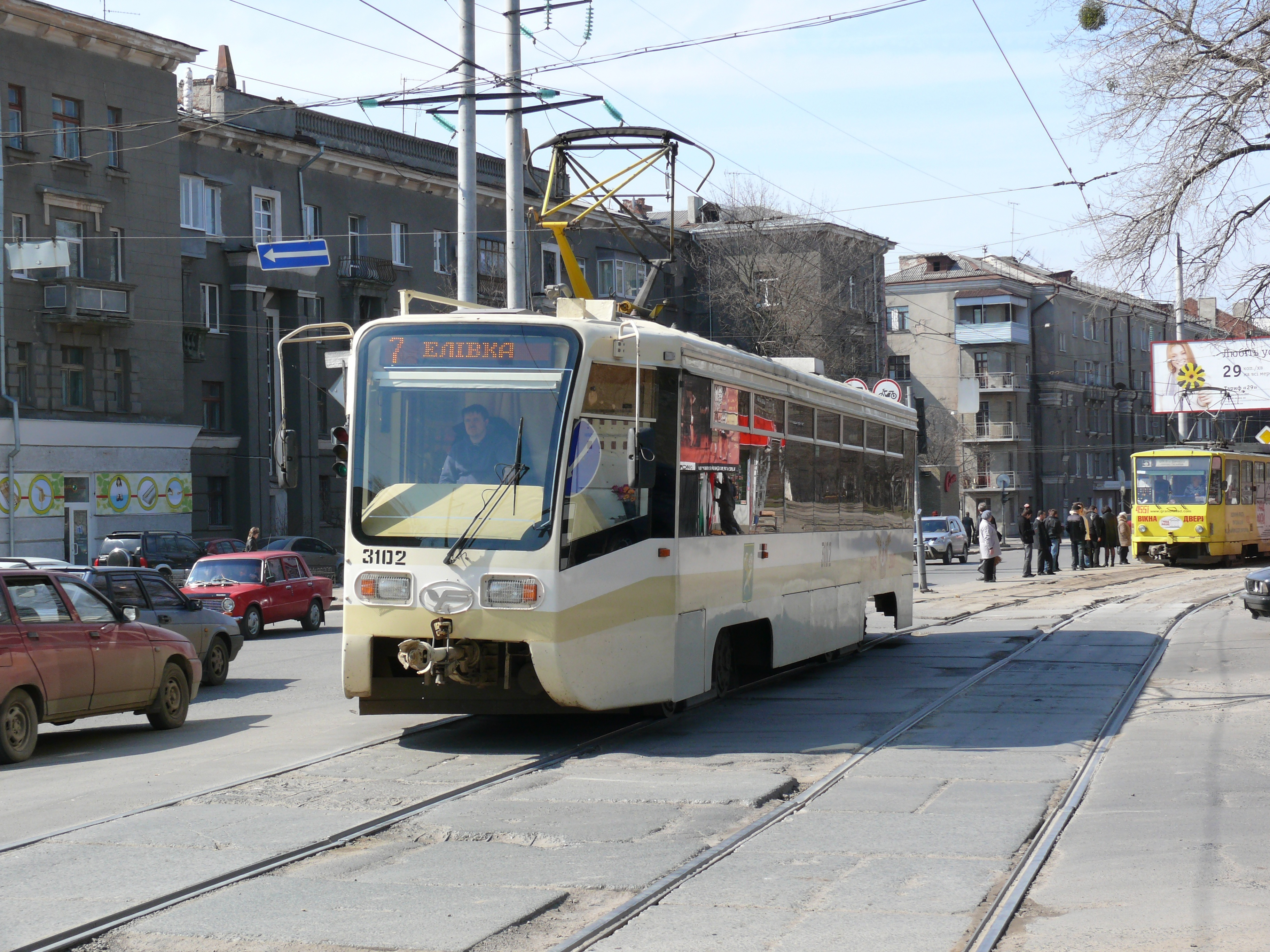 Kharkov tram 3102 KTM-19, 2008